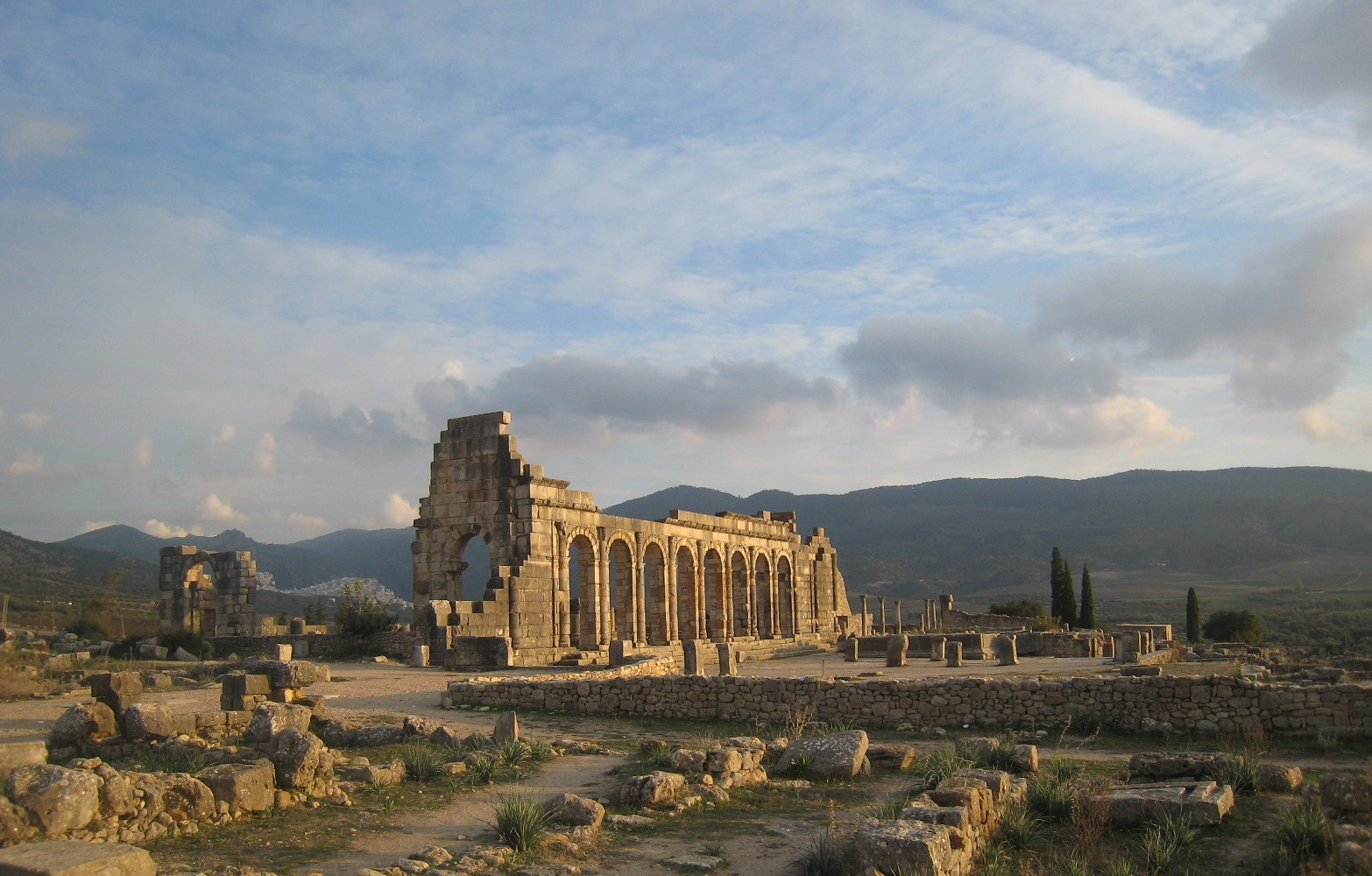 Volubilis.